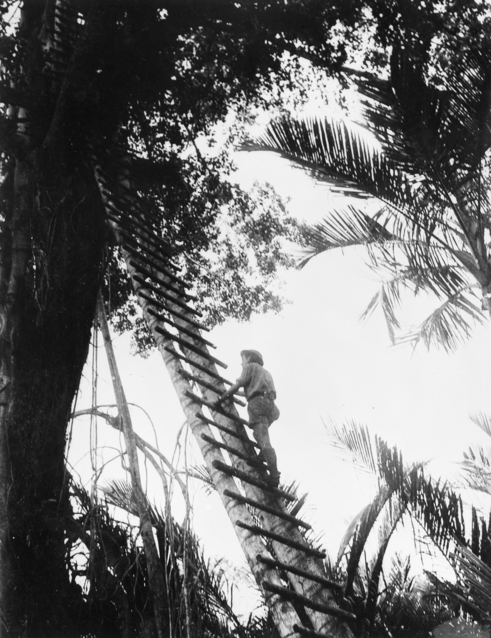 1943-01-08. AN AUSTRALIAN CLIMBING TO A JAPANESE OBSERVATION POST BUILT HIGH UP IN A TREE TO ALLOW THE ENEMY TO DIRECT THE FIRE OF TWO 3-INCH NAVAL GUNS AGAINST ALLIED TROOPS ADVANCING ON BUNA. AUSTRALIANS CAPTURED THE GUNS AND OBSERVATION POST. THEY USED THE OBSERVATION POST TO DIRECT THE FIRE OF OUR 25-POUNDERS.